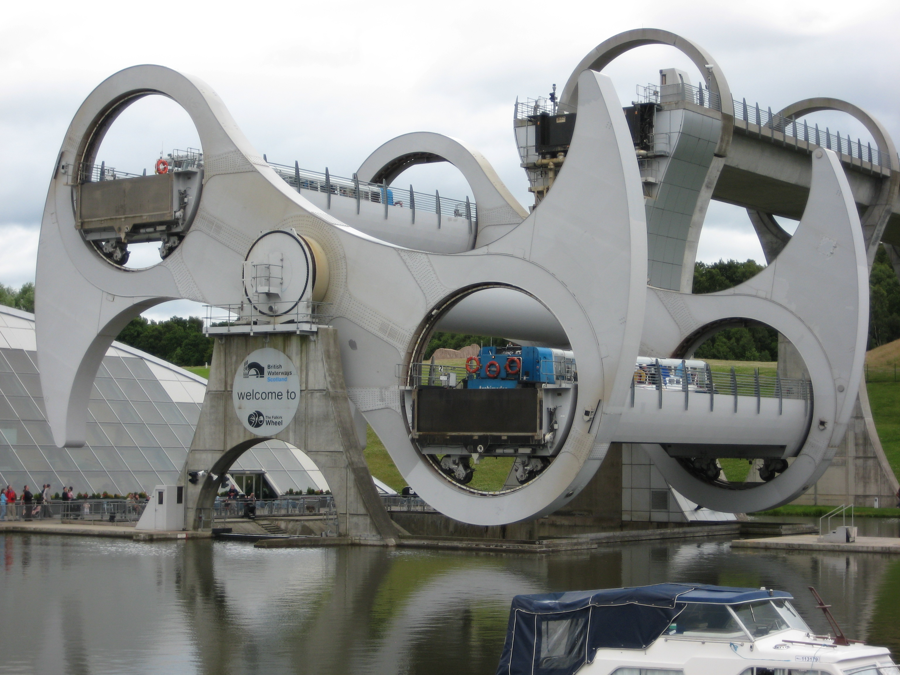 Falkirk Wheel in operation, Scotland.